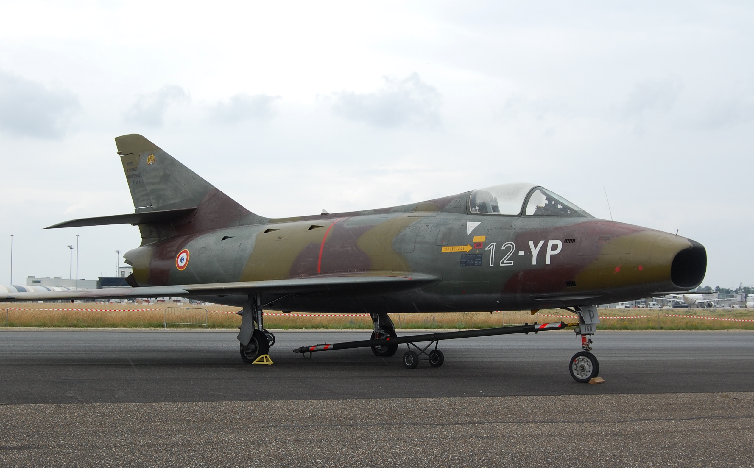 Super Mystère B2 de la base aerienne 103 cambrai-epinoy aux cent ans de l'aviation à Mérignac.